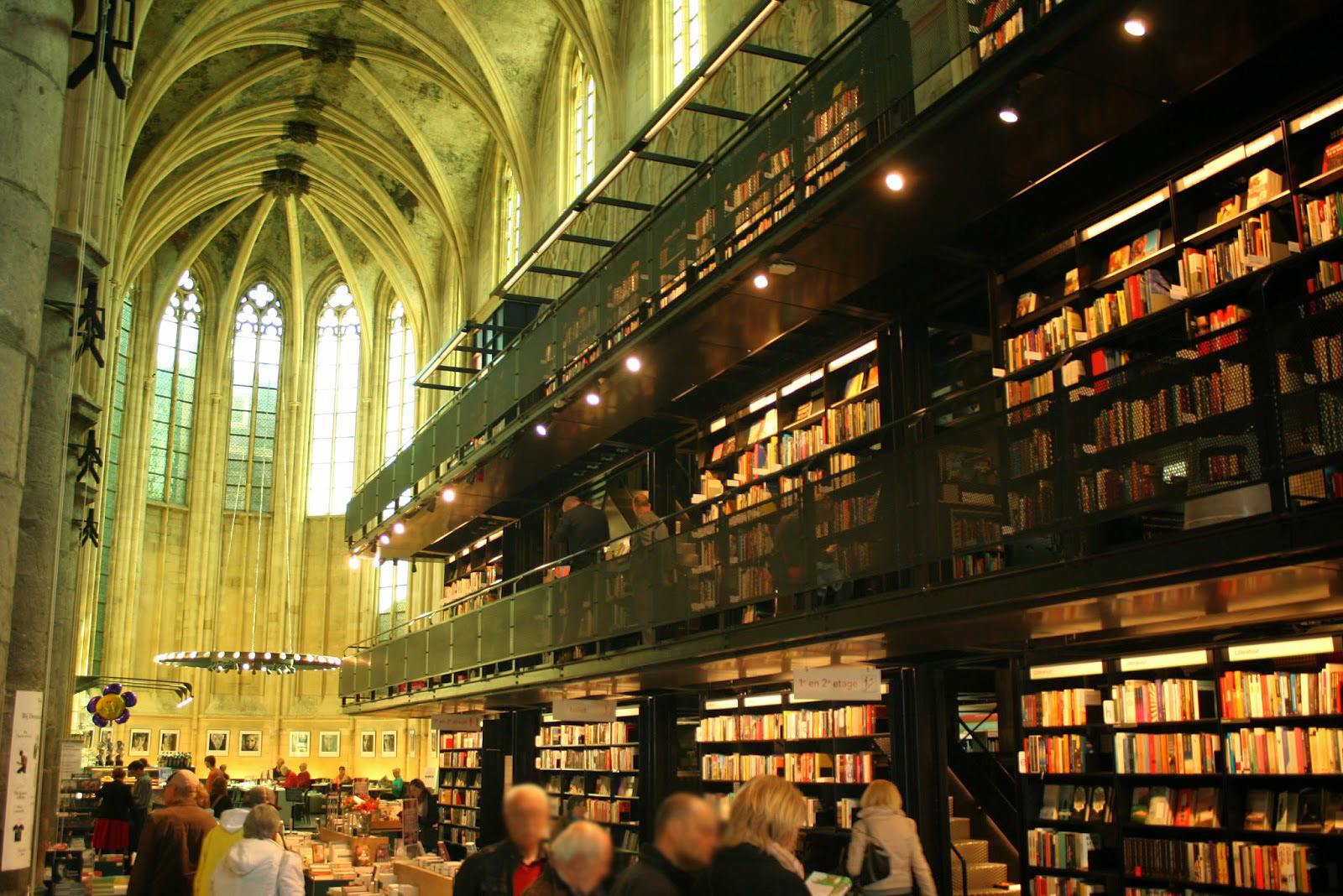 13th century Dominican church converted into a bookstore in Maastricht, the Netherlands